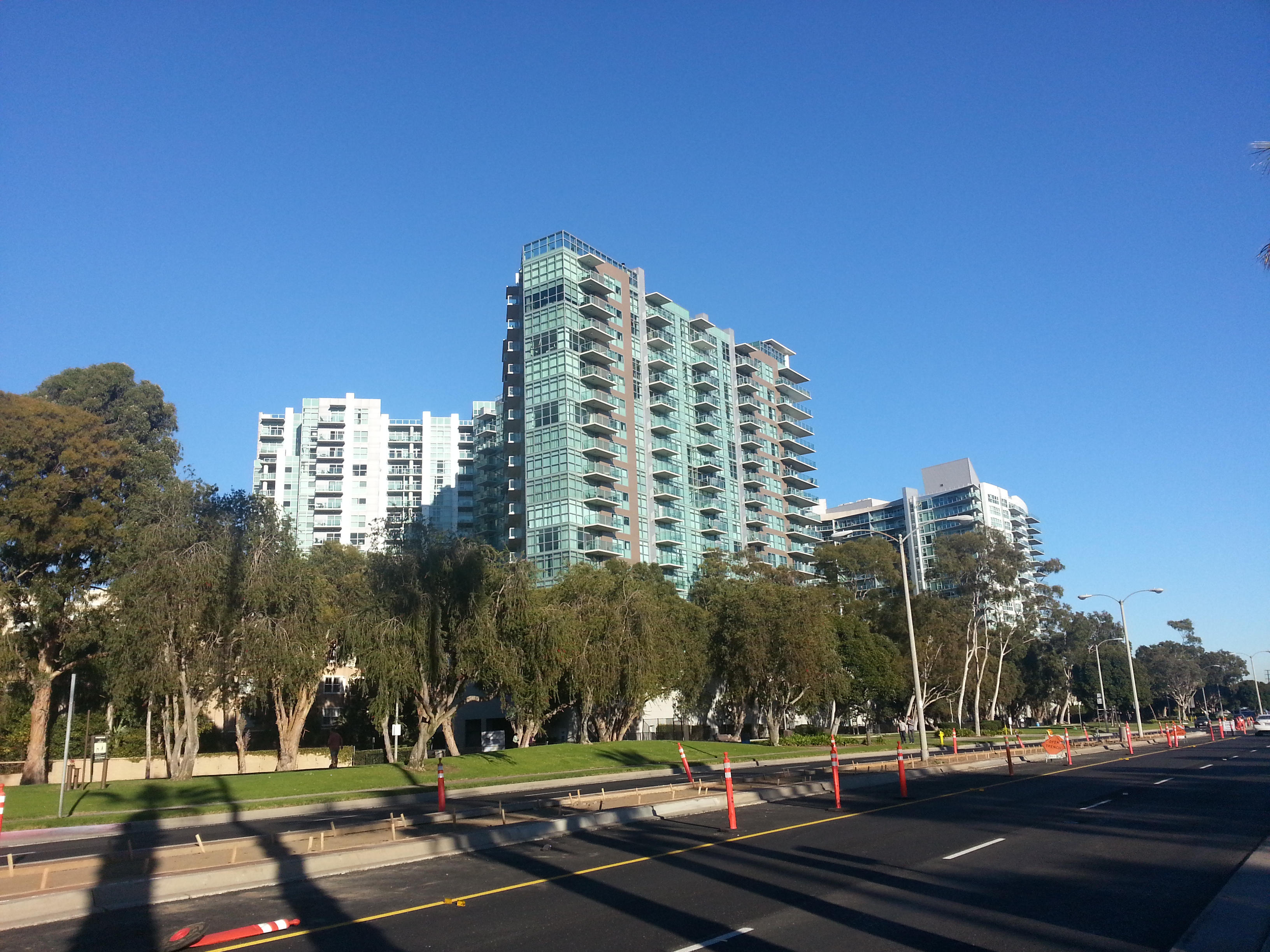 A view of glass-fronted apartment buildings seen from Admiralty Way in Marina del Rey, CA, USA